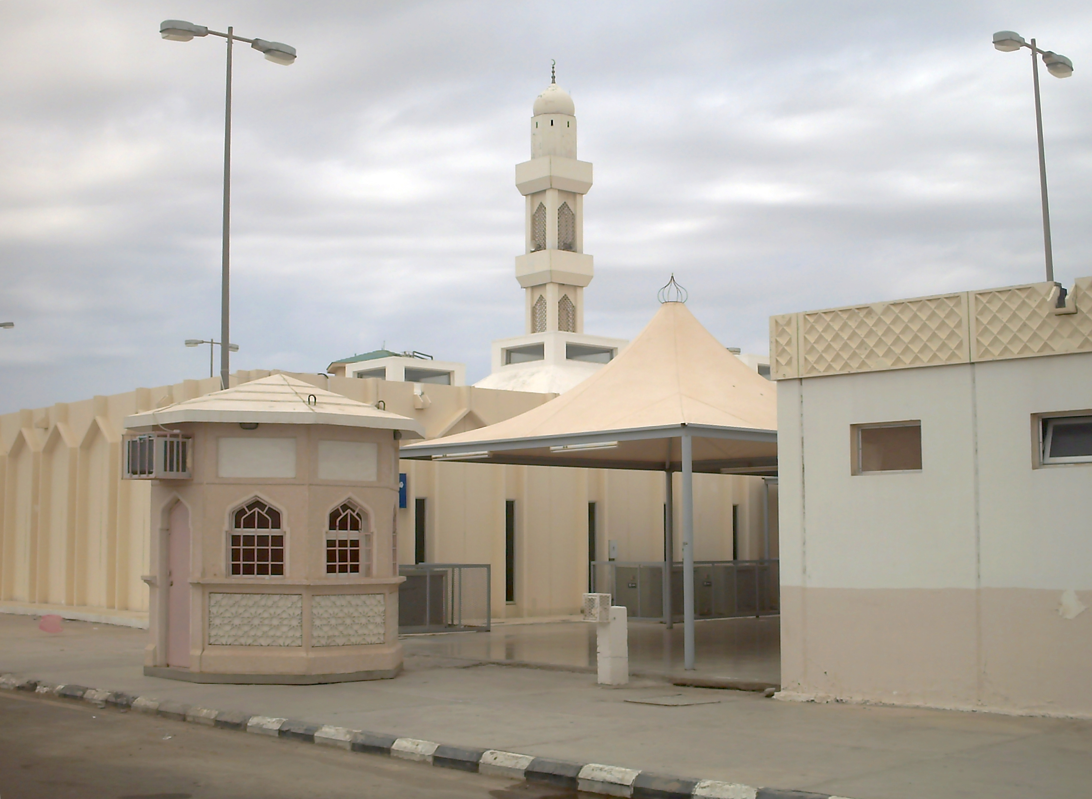 Mosque_at_Johfa